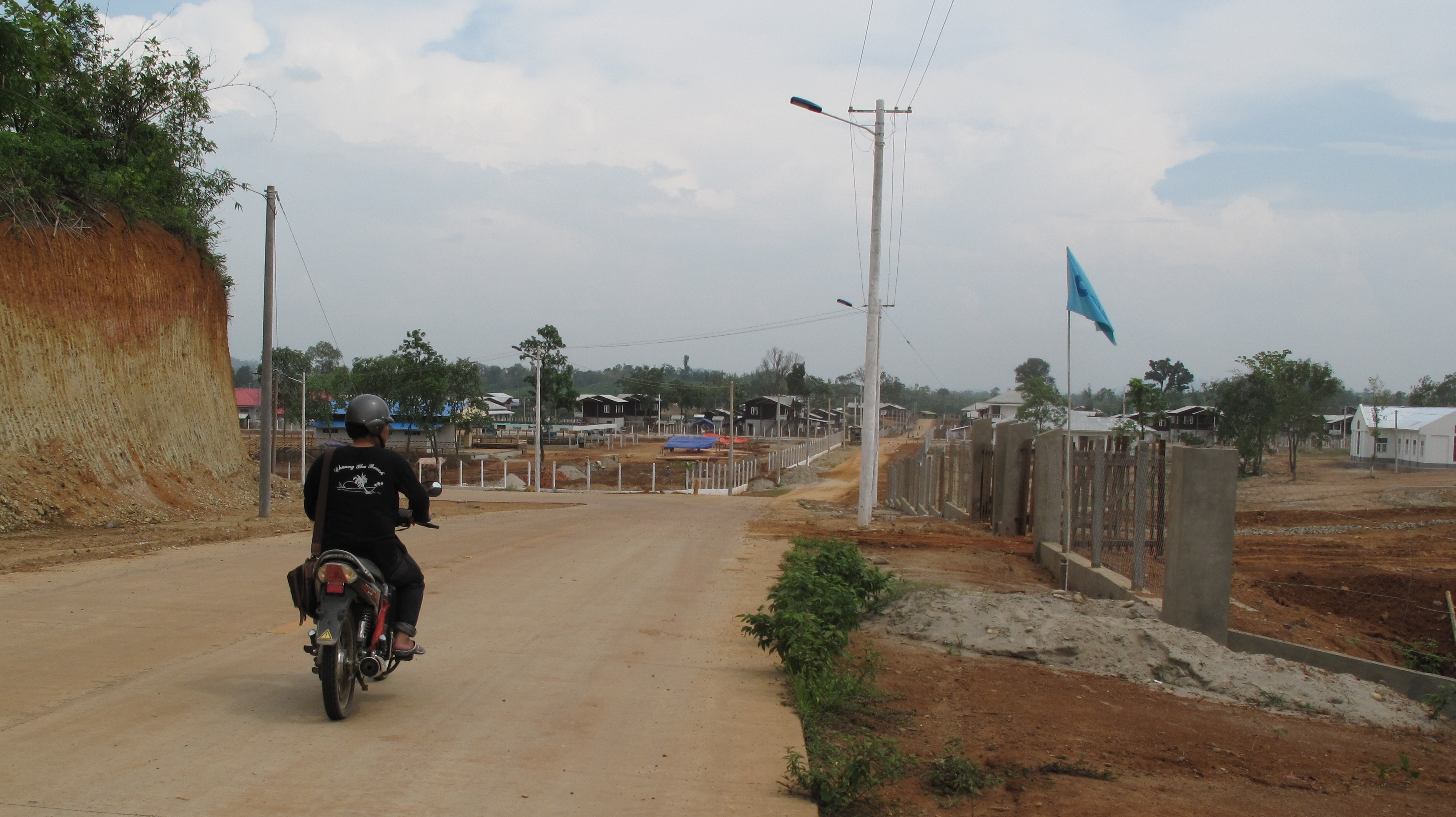 New concrete road and electricity supply for Tang Hpre village after relocation.